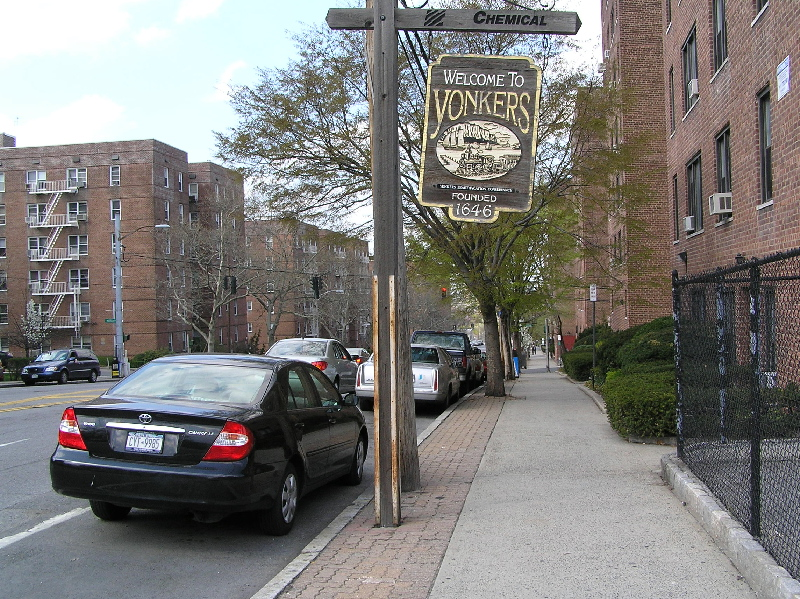 I took this picture of Riverdale Avenue looking north at the city line on April 15, 2006., GNU Free Documentation License